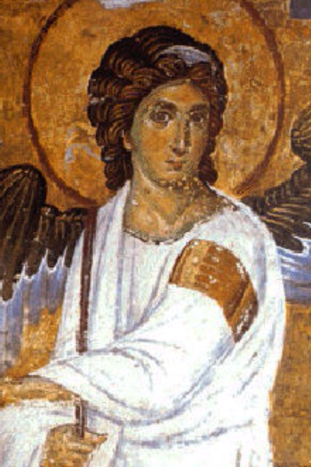 Fresco in the monastery church of Mileseva, Scene: Resurrection of Christ